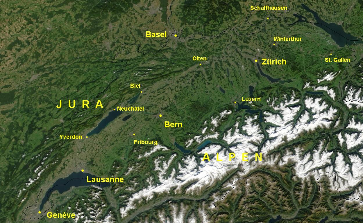 Satellite image of Mittelland of Switzerland 30.09.2002